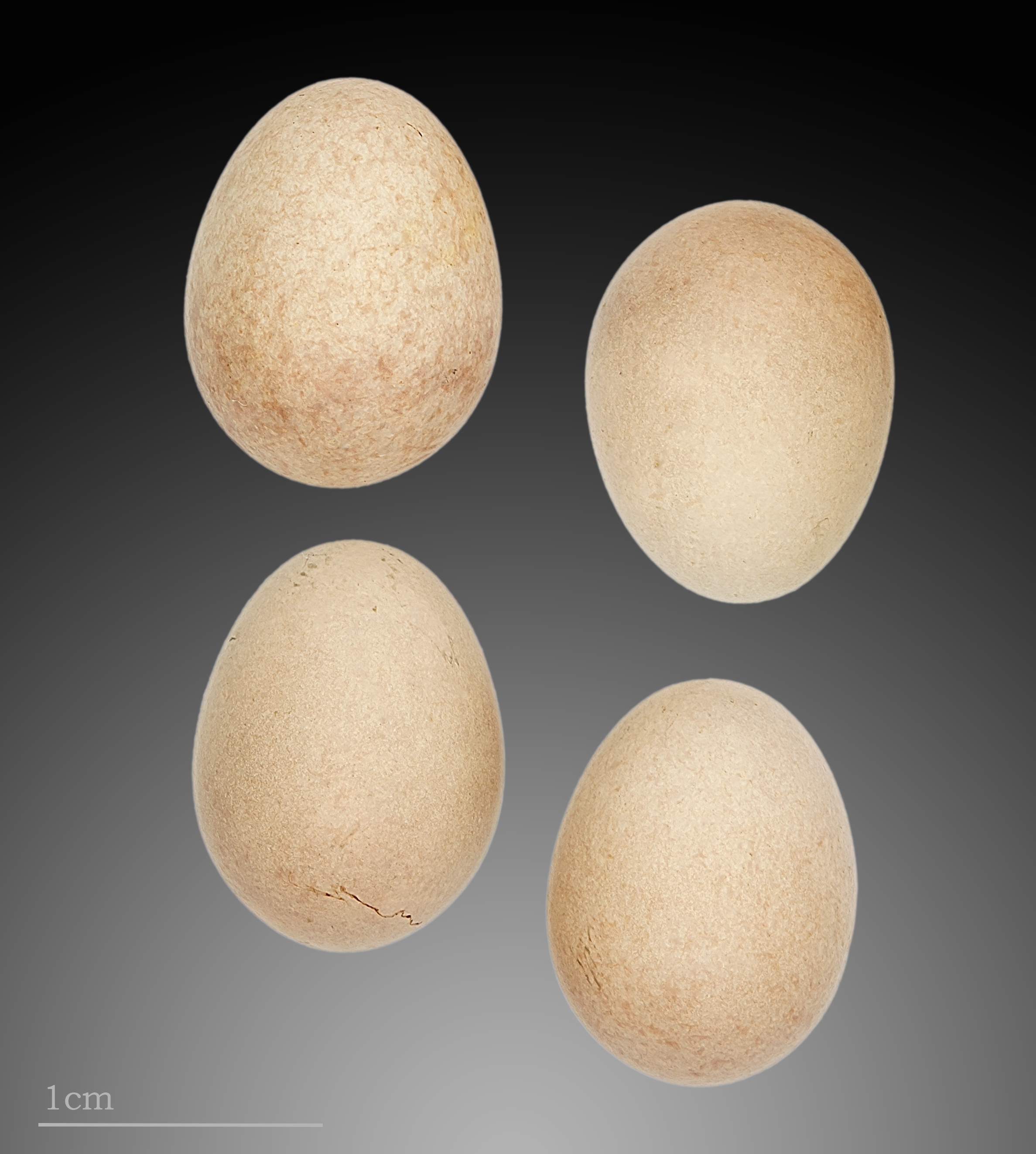 Egg of Common Firecrest. Collection of Jacques Perrin de Brichambaut.